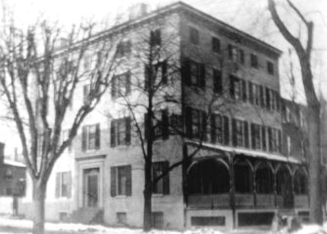 Salesianum School - Original location in Wilmington DE at 8th and West Streets - Operated by the Oblates of St Francis de Sales